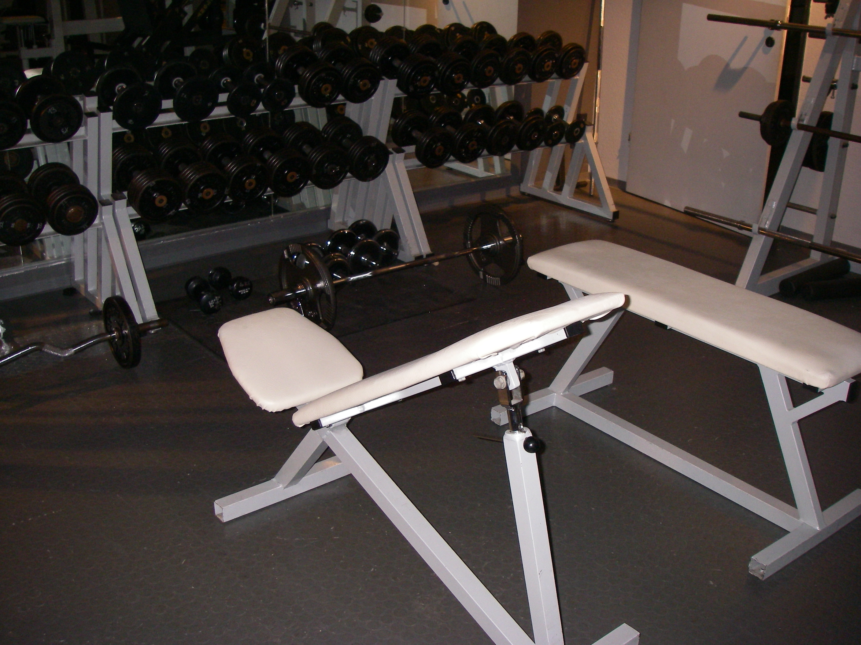 Two weight training benches in a fitness center in Nürnberg, Germany